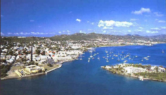 The City of Christiansted looking east